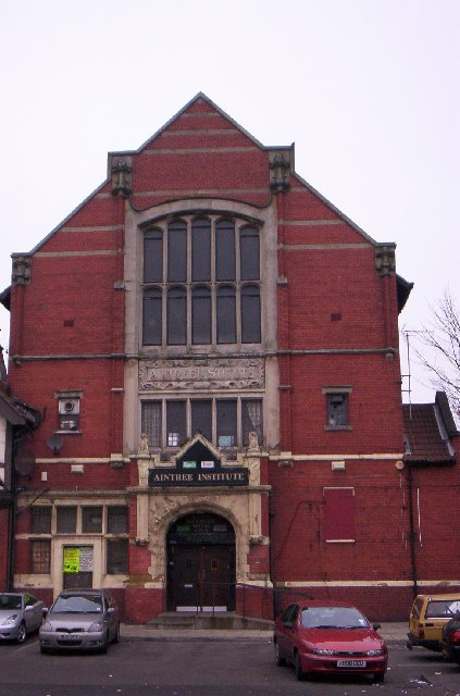 Aintree Institute. The Beatles made 31 appearances here 7 January 1961 - 27 January 1962. Despite the name it was actually in Walton